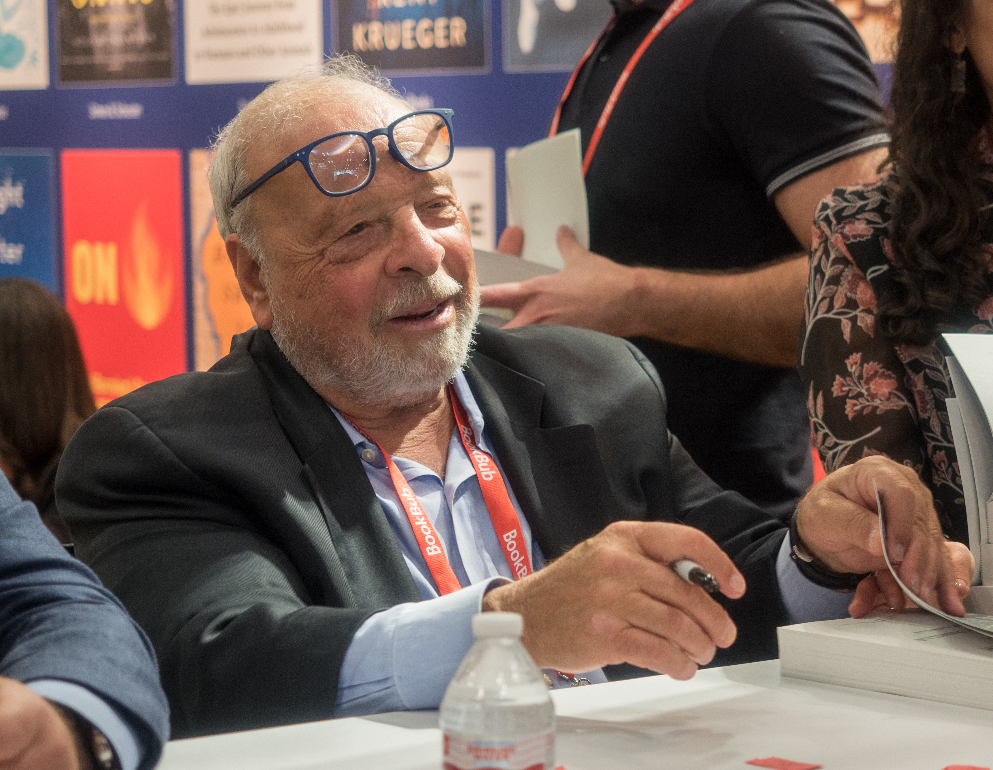 Nelson DeMille at BookExpo at the Javits Center in New York City, May 2019.